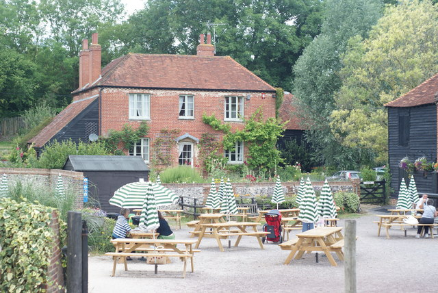 Bocketts Farm, Leatherhead, Surrey A very popular location with cycle clubs, which is how I first discovered it. Also very popular with families visiting the farm. In this photograph, the farmhouse can be seen.